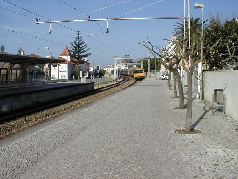 Parede train station at Cascais Line, Portugal